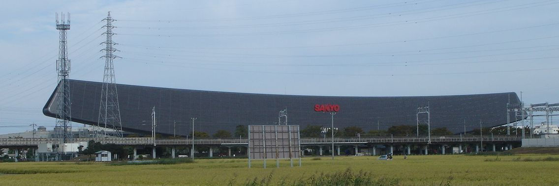 Solar Ark